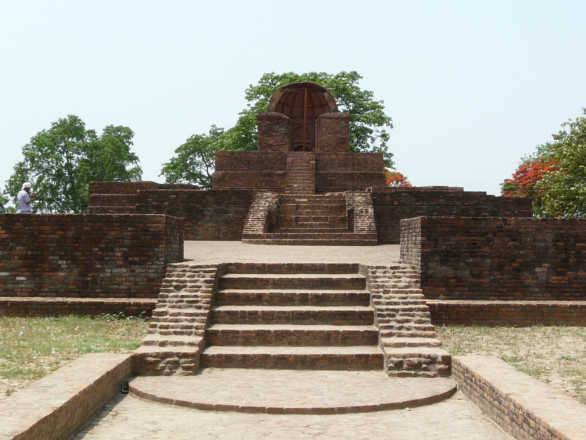 Shobhnath temple Jetavana, Shravasti, Uttar Pradesh, India